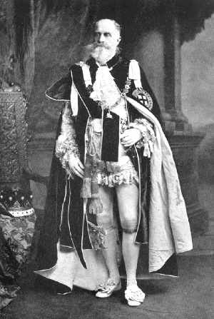 Earl Spencer (1835-1910), Lord-Lieutenant of Ireland (1869-1874 and 1882-1885)